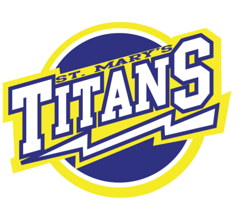 The official logo for the Titans Athletics